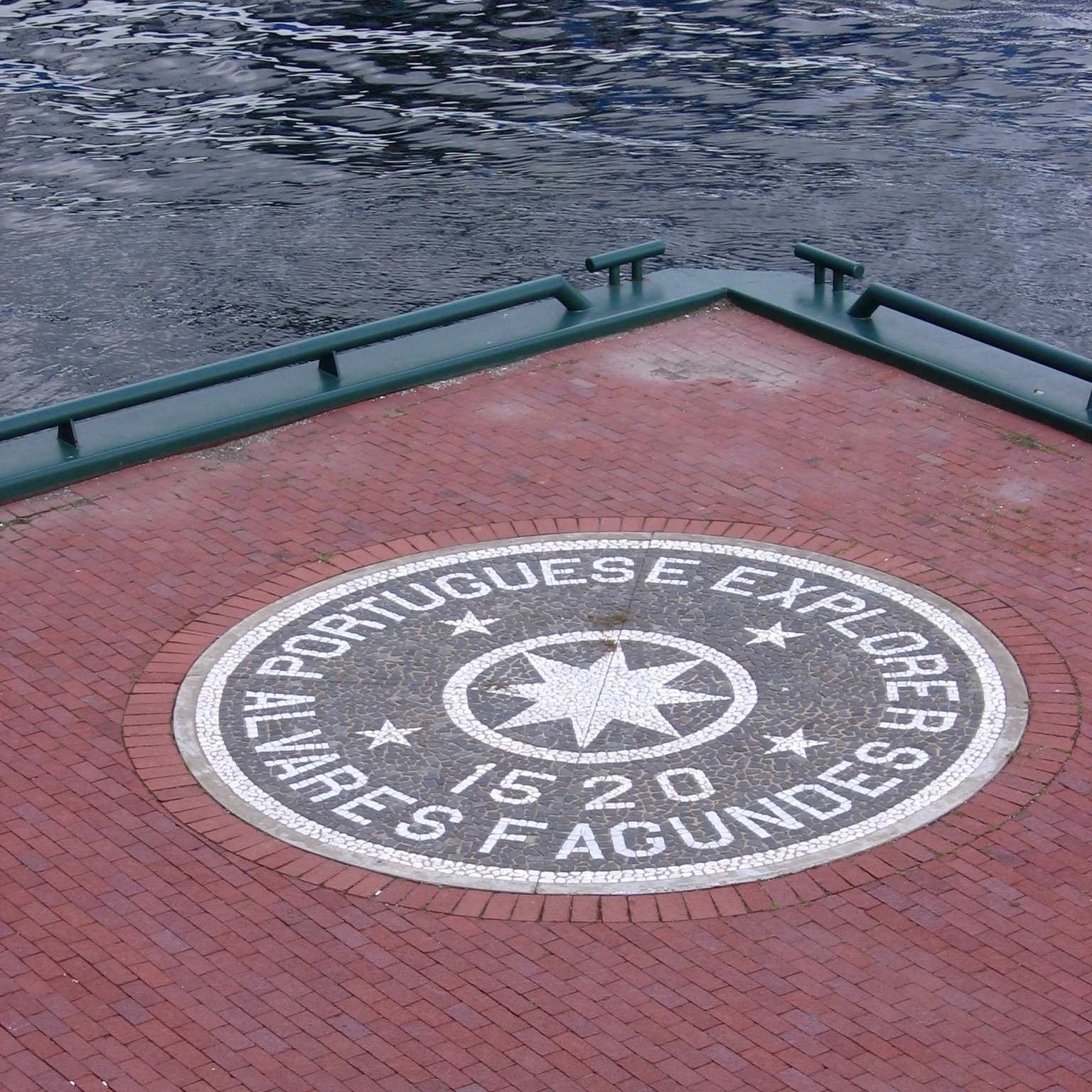 Photo of Halifax Waterfront showing mosiac commemorating the supposed arrival in Halifax Harbour by Fagundes in 1520.